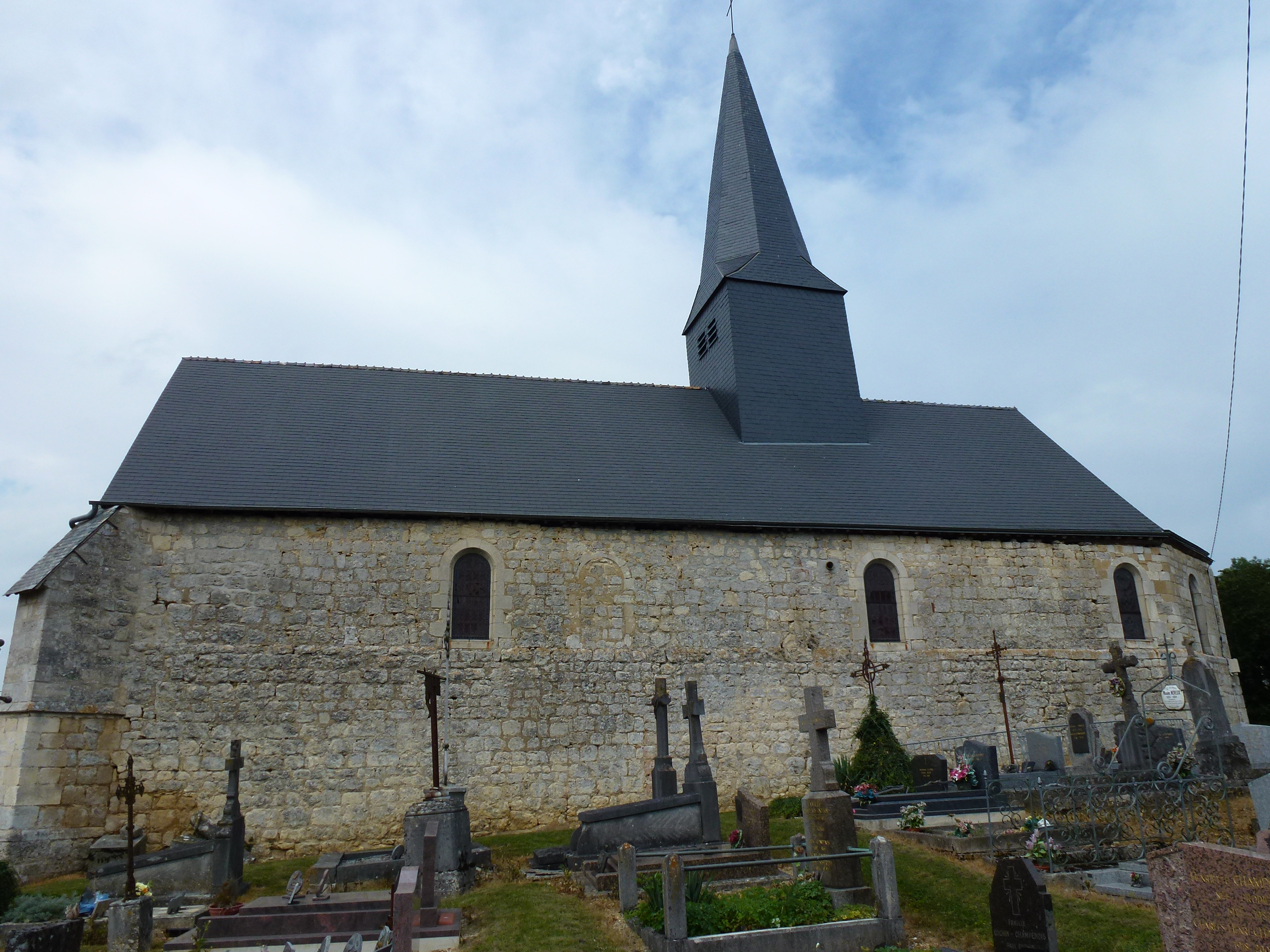 Draize (Ardenens) Église Sainte-Anne, vue latérale